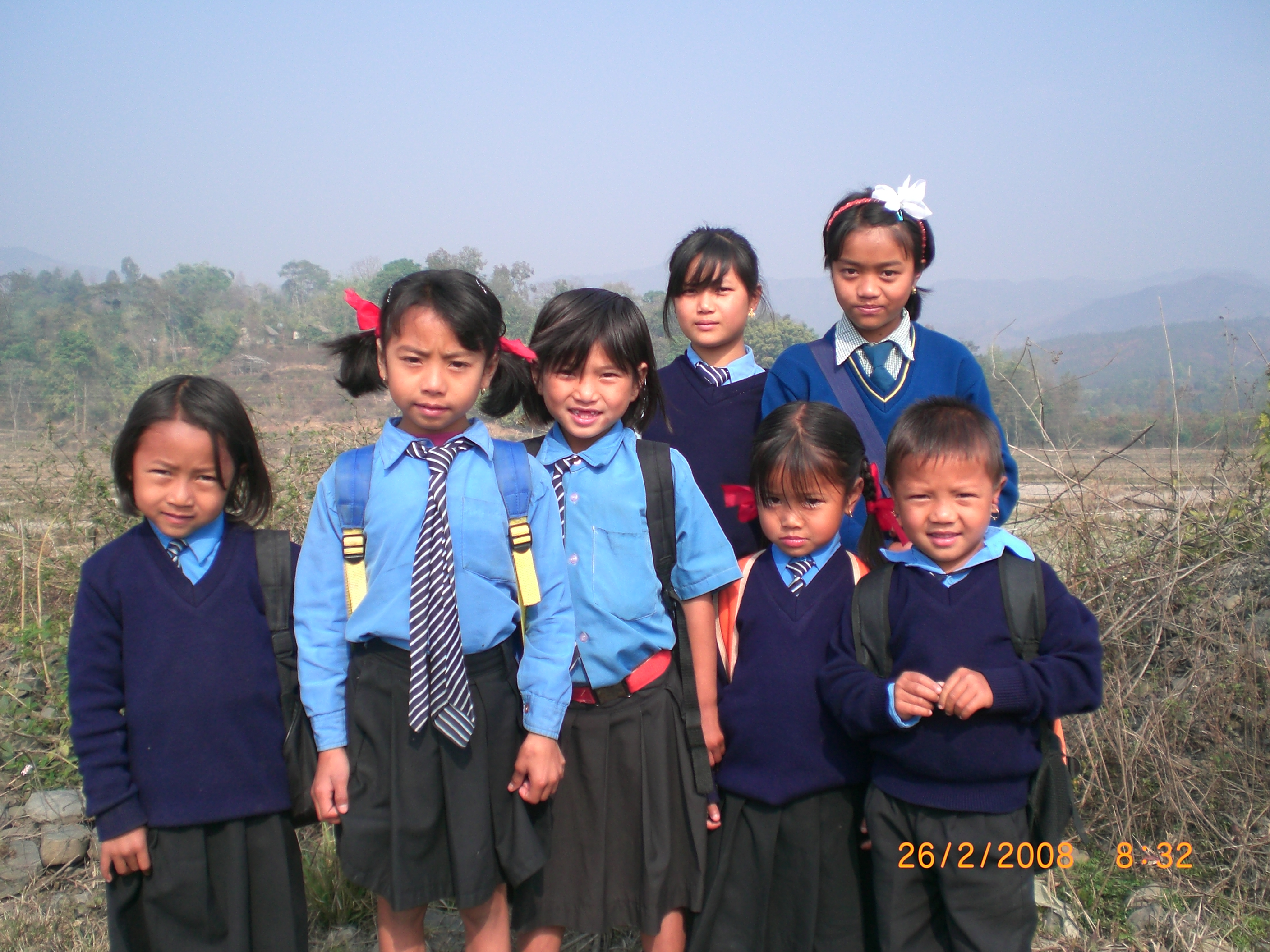 School kids of Longa Koireng